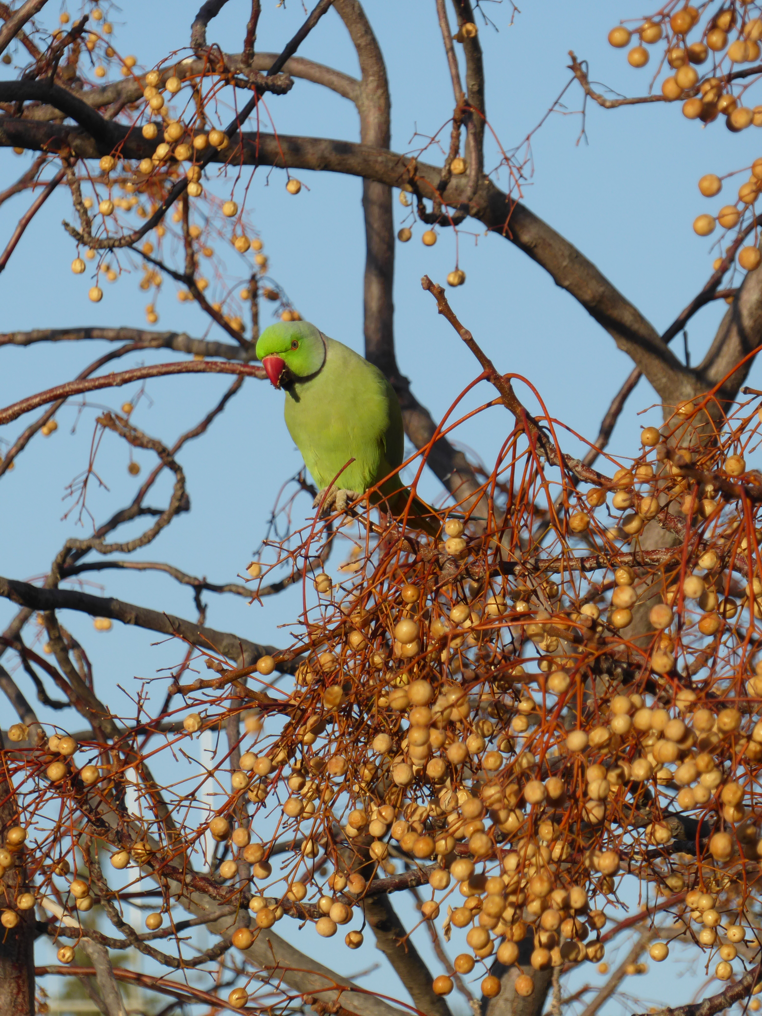 Animals of Israel